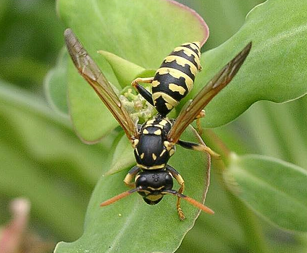 Polistes gallicus, former Polistes foederatus visiting Euphorbia bubalina own photography by user Vincentz uploaded: Oct 17, 2006